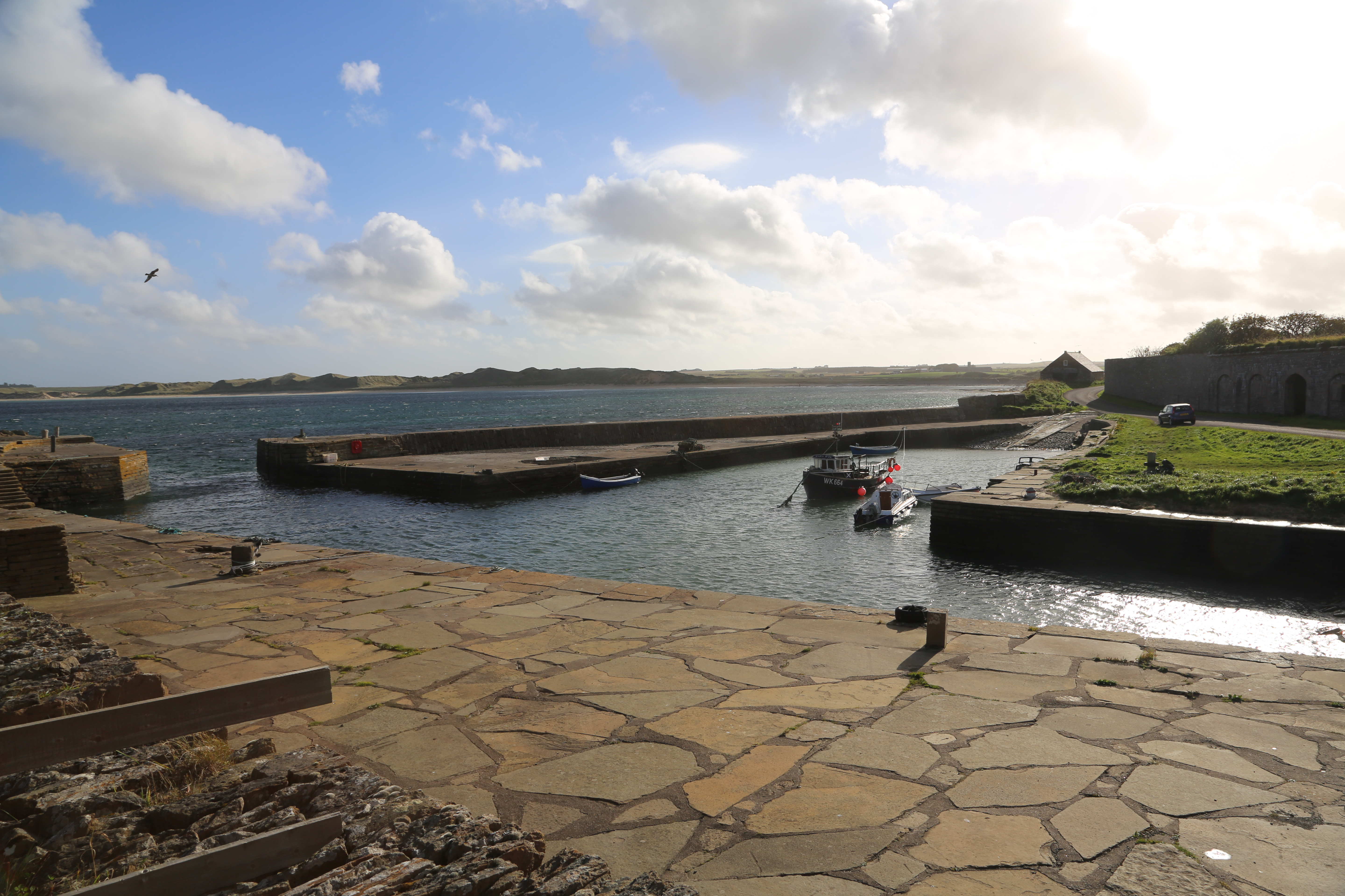 photo of Castlehill harbour in Castletown, highland